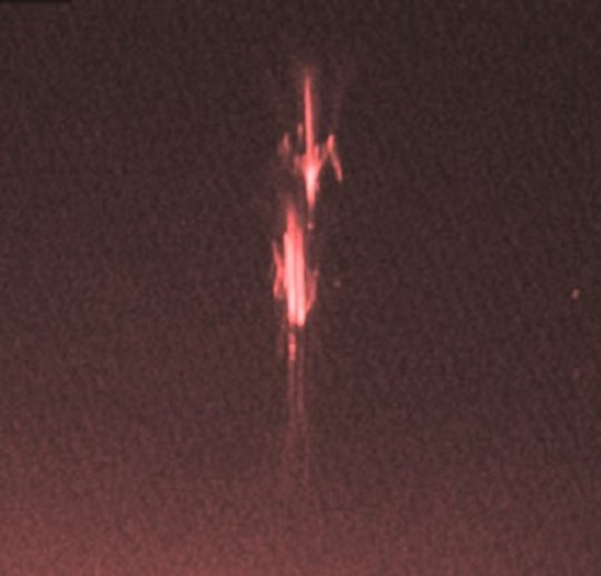 Red sprite above Hungary